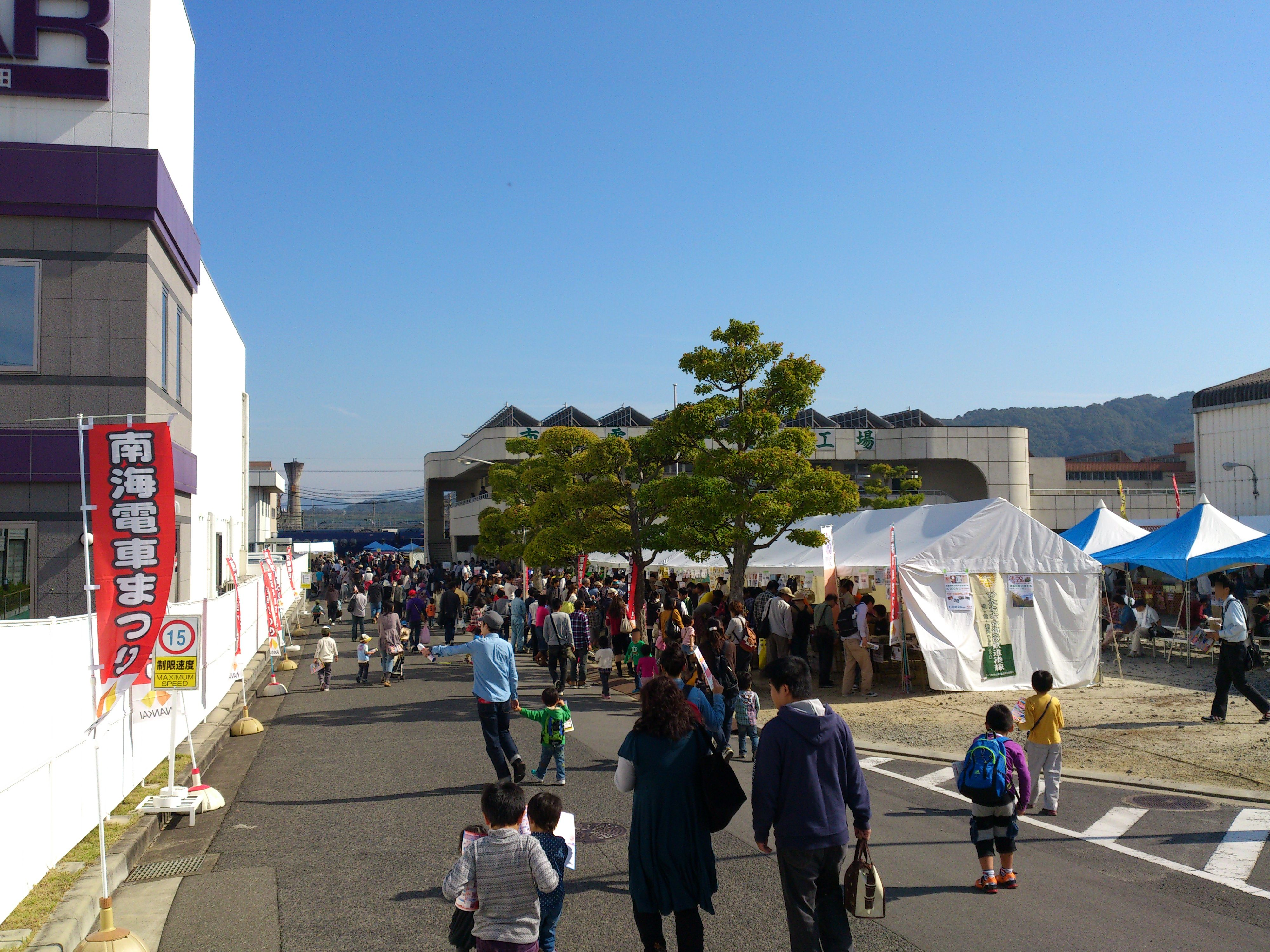 Nankai Electric Railway Festival 2012 in Kawachinagano, Osaka.